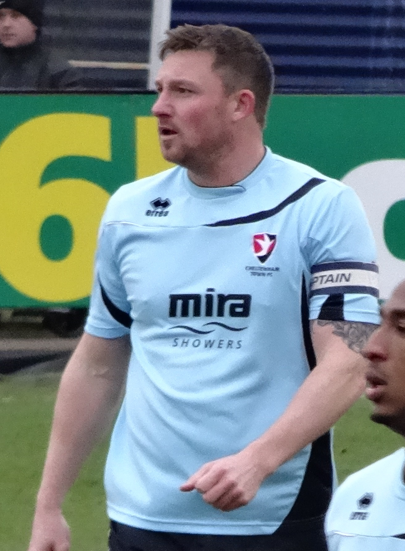 Steve Elliott.